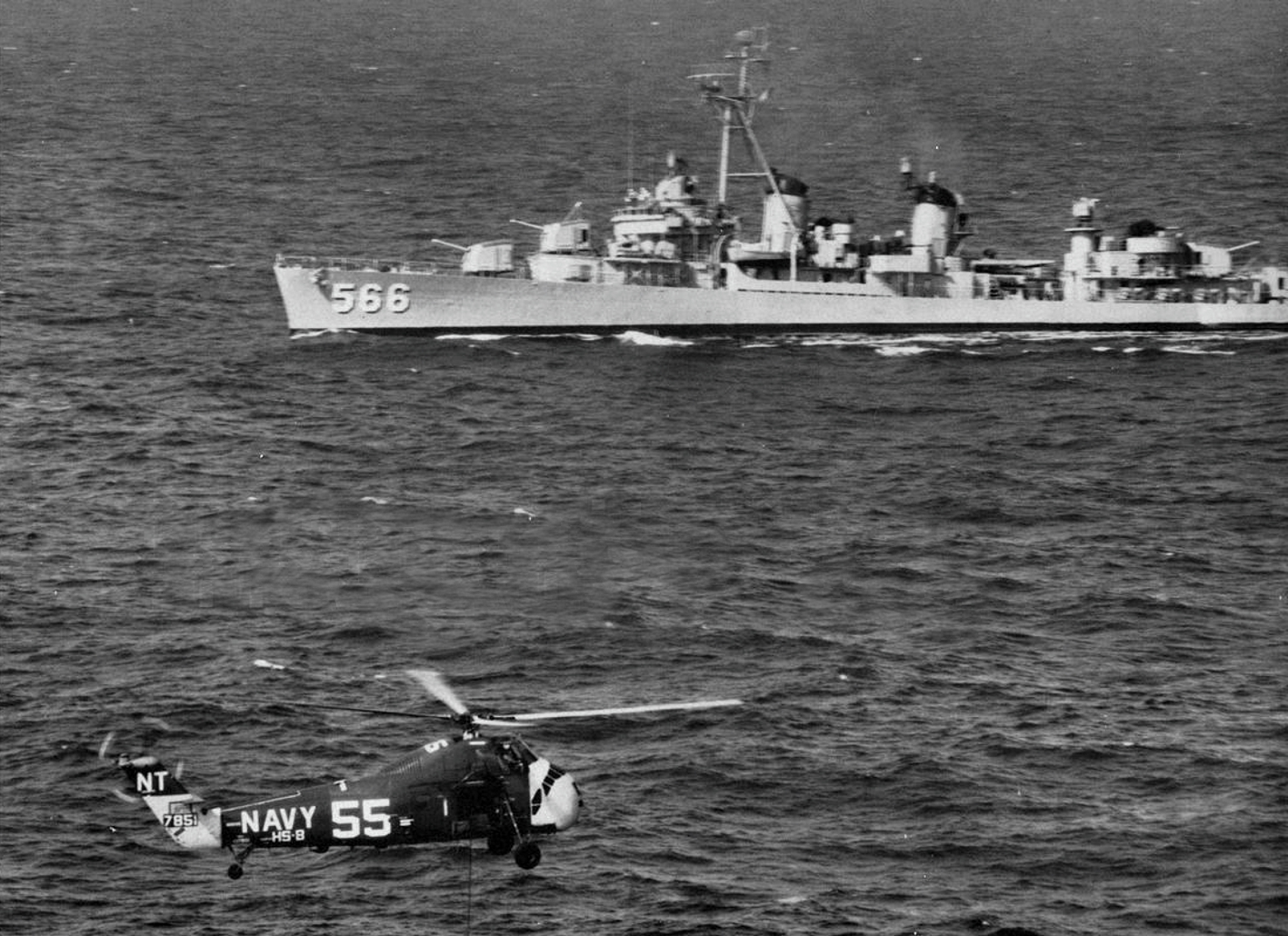 The U.S. Navy destroyer USS Stoddard (DD-566) and a Sikorsky HSS-1 Seabat (BuNo 137851) of Helicopter Anti-Submarine Squadron 8 (HS-8) "Eightballers" hunt for submarines in the Pacific Ocean, circa in 1960. HS-8 was assigned to Carrier Anti-Submarine Air Group 59 (CVSG-59) aboard the aircraft carrier USS Bennington (CVS-20) for a deployment to the Western Pacific from 1 October 1960 to 2 May 1961.